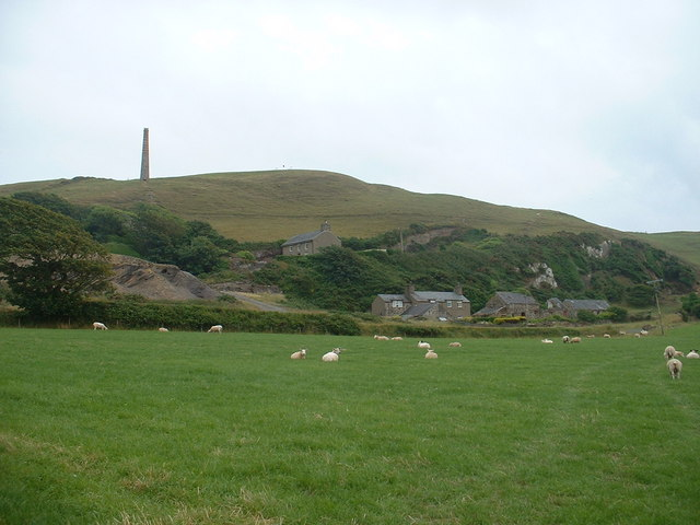 Llanengan Chimney. A remnant of the mining industry in the area. It is, apparently, a smelting chimney - I don't know what ore was smelted here, but the area had copper, zinc and lead mines.